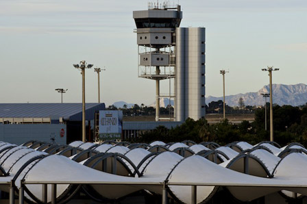 Control Tower - Alicante Airport